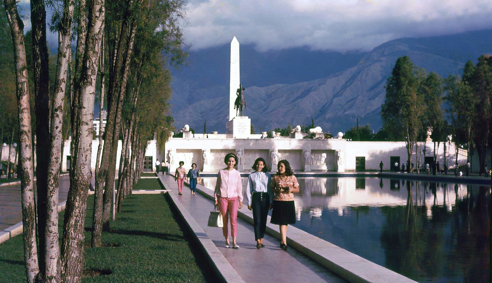 Caroline Padron Updyke’s mother, Elsa Padron, left, and two friends in Caracas in the 1960